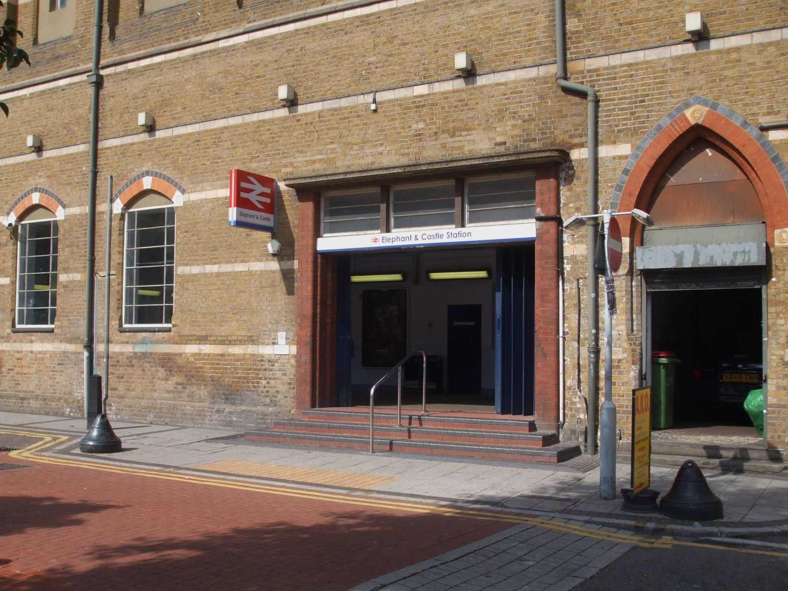 Entrance to Elephant & Castle railway station, separate from the tube station 100 metres to the west.